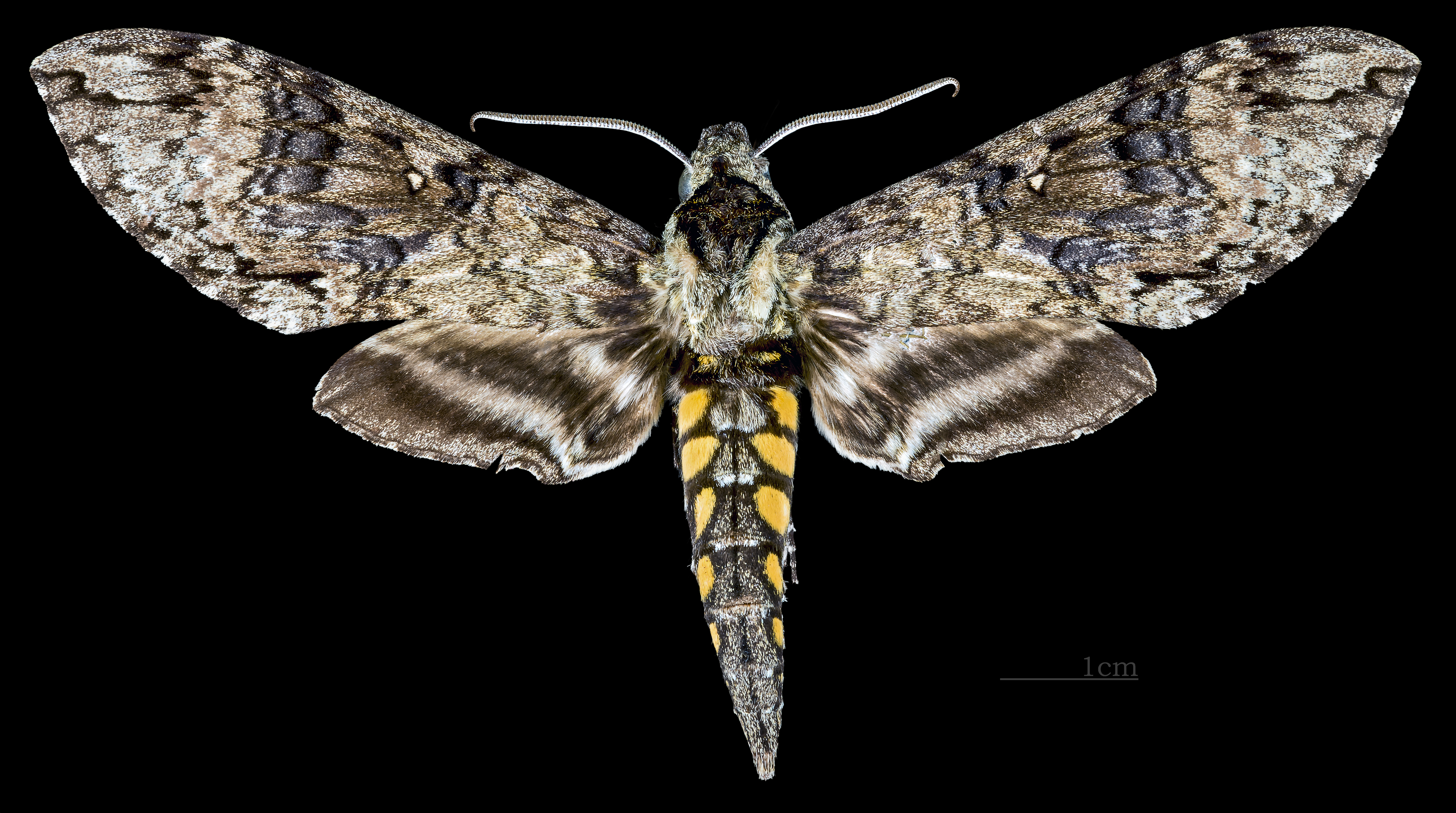 Manduca clarki - Dorsal side